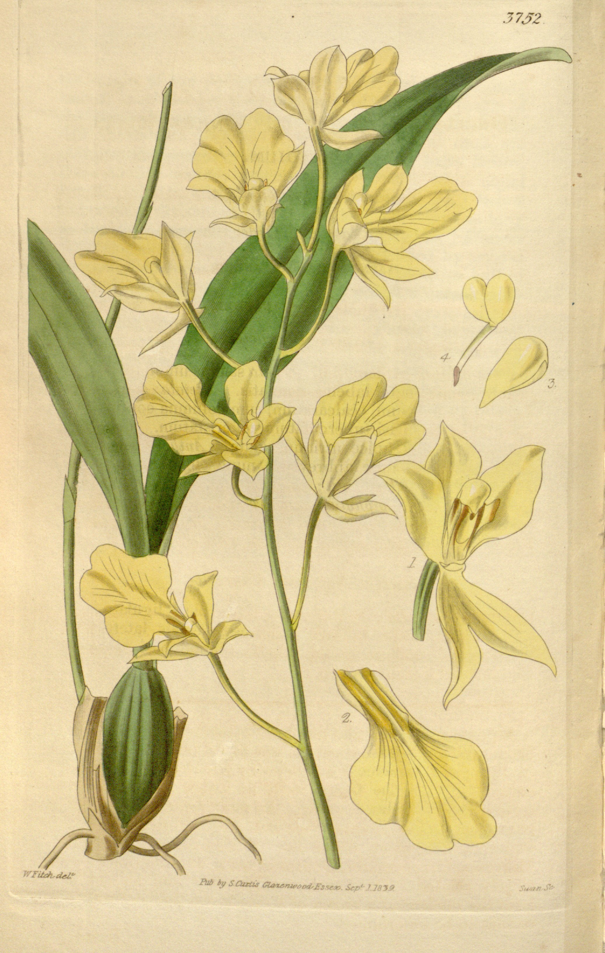 Illustration of Oncidium concolor